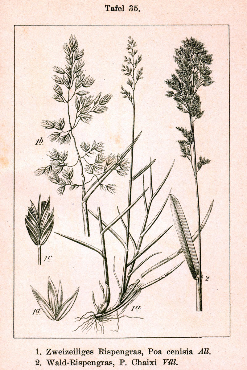 Original Description 1. Zweizeiliges Rispengras, Poa cenisia All. 2. Wald-Rispengras, Poa chaixii Vill.